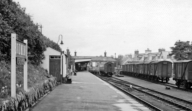 Bodmin (General) Station. View northward, to buffer-stops; ex-GWR terminus of branch from Bodmin Road ('Bodmin Parkway' since 4/11/84). The station and lines from Bodmin Road, also from Wadebridge were closed on 30/1/67, but on 31/3/86 the Heritage Bodmin & Wenford Railway began to operate trains again from Bodmin General.